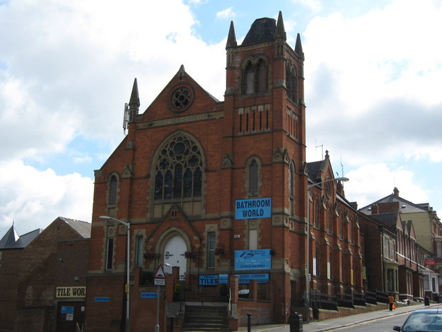 Former Methodist New Connexion Church In Victoria Road Darlington now a bathroom showroom. Architect Abraham Harrison Goodall. 1883-84